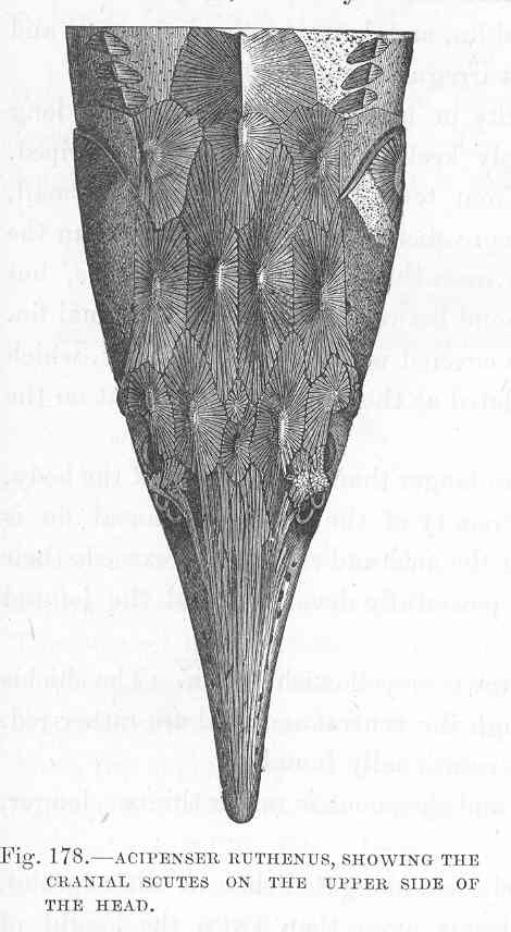 Acipenser ruthenus, Showing the Cranial Scutes on the Upper Side of the Head Subject: Acipenser, Sterlet Tag: Fish